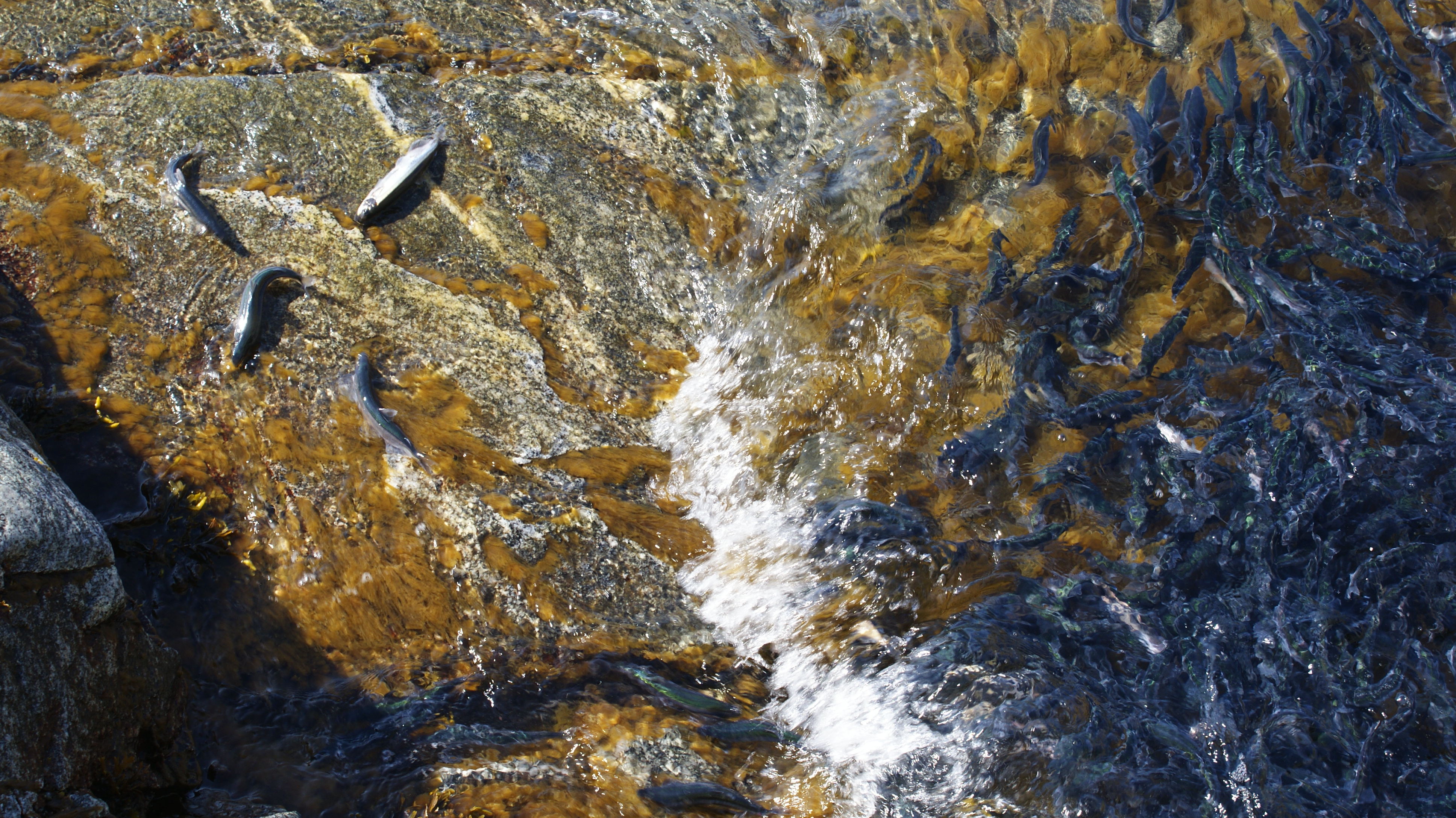 Uummannaq Island, Greenland. Fish school migrations in Qasigissat Bay. Confused biomass following the leaders around the shores. No casualties, despite the appearances.